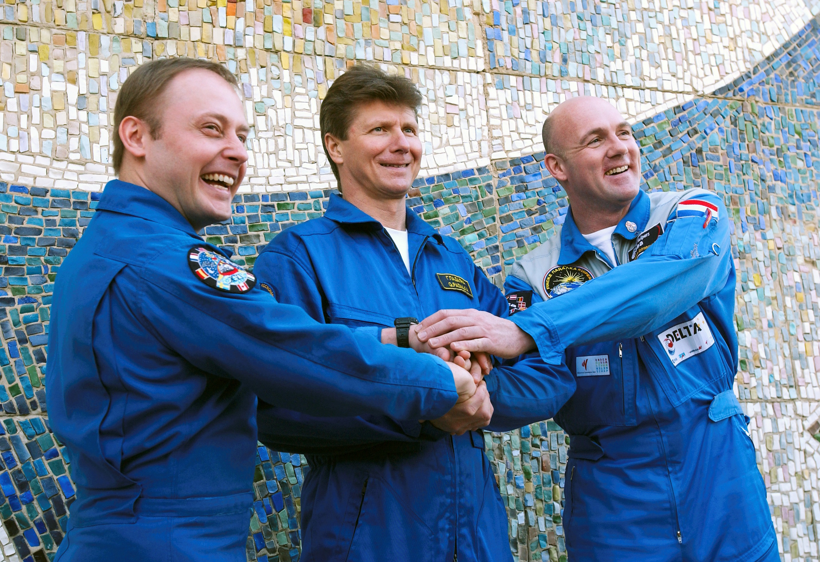 Astronaut Edward M. (Mike) Fincke (left), NASA International Space Station (ISS) science officer and flight engineer; cosmonaut Gennady I. Padalka (center), Russia’s Federal Space Agency Expedition 9 mission commander; and European Space Agency (ESA) astronaut Andre Kuipers (right) of the Netherlands pose for a group photo after the flag raising ceremony at the Cosmonaut Hotel, Baikonur, Kazakhstan.